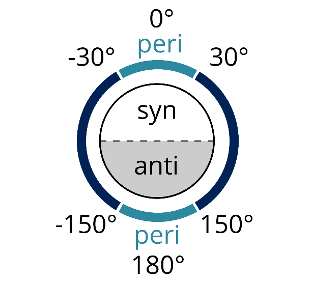 Illustrating of the syn/anti peri nomenclature of molecular dihedral angles